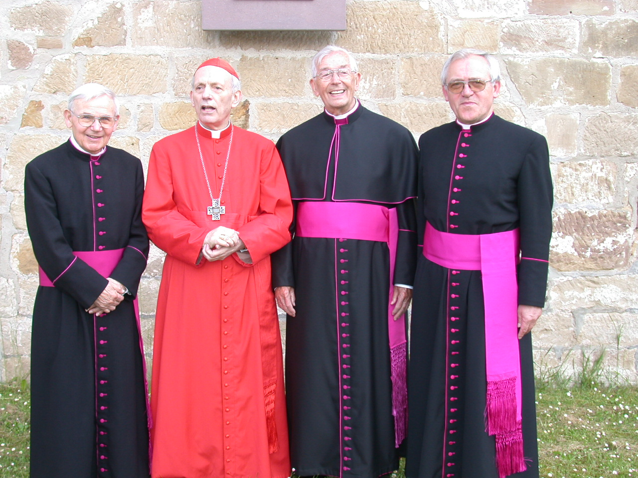 Joachim Kardinal Degenhardt mit den ehemaligen Rektoren Msgr. Dr. Wilhelm Kuhne, Prälat Clemens Brüggemann und Msgr. Prof. Dr. Konrad Schmidt Weitere Daten: Dateiname : DSCN1145.JPG Dateigröße : 447.3 KB (458073 Byte) Aufnahmedatum : 2002/05/26 10:45:07 Bildgröße : 1280 x 960 Pixel Auflösung : 300 x 300 dpi Farbtiefe : 8 Bit/Kanal Schützen : Aus Ausblenden : Aus Kamera-ID : N/A Kamera : E995 Qualitätsmodus : FEIN Messmethode : Mehrfeld Belichtungsbetriebsart : Programmautomatik Speedlight : Ja Brennweite : 10.7 mm Verschlusszeit : 1/118.6 Sekunde Blende : F3.3 Belichtungskorrektur : 0 EV Fester Weißabgleich : Automatik Objektiv : Integriert Blitz-Synchronisierungsmodus : Erster Verschlussvorhang Belichtungsdifferenz : N/A Flexibles Programm : N/A Empfindlichkeit : Auto Schärfung : Automatik Farbmodus : Farbe Farbeinstellungen : N/A Farbsättigung : N/A Farbsättigung : 0 Normal Tonwertkorrektur : Automatik Breite (GPS) : N/A Länge (GPS) : N/A Höhe (GPS) : N/A